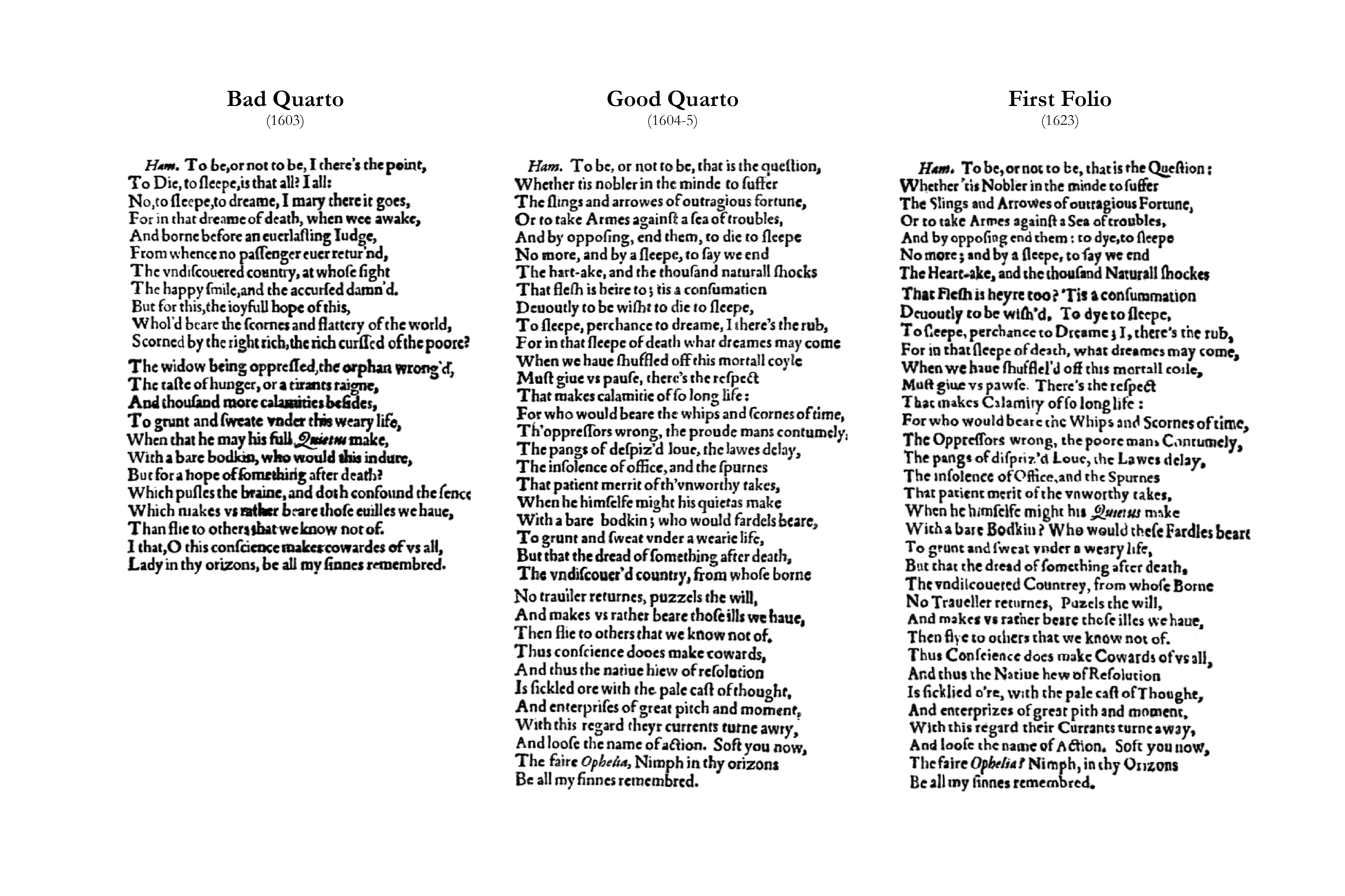 comparison of the 'To be, or not to be' speech in the first three publications of 'Hamlet.'